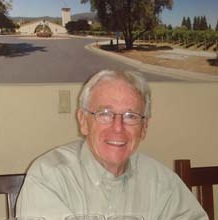 Charles O'Rear